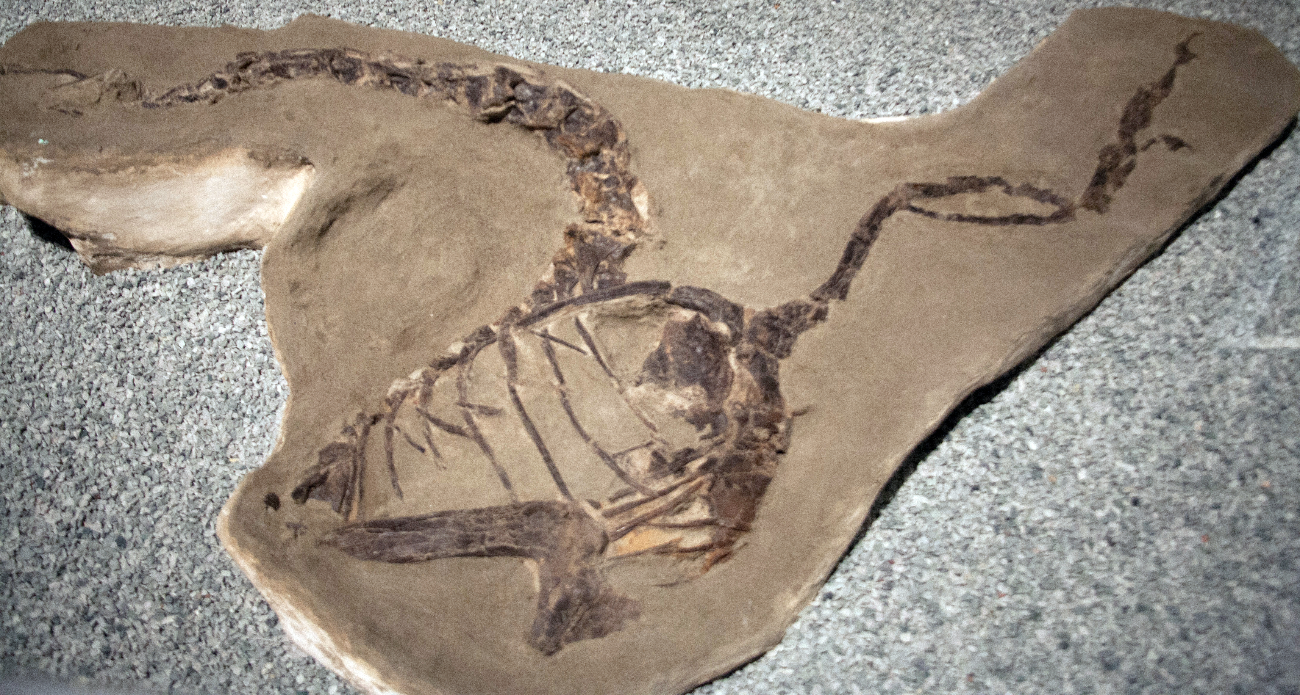 Apatoraptor pennatus holotype, Royal Tyrrell Museum